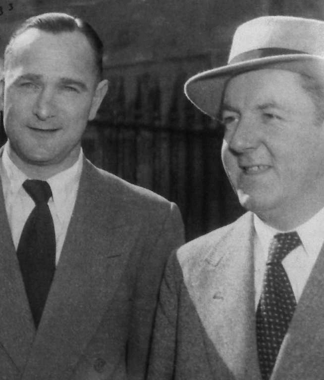 Sid Barnes and his lawyer during his libel case with the Australian Board of Control